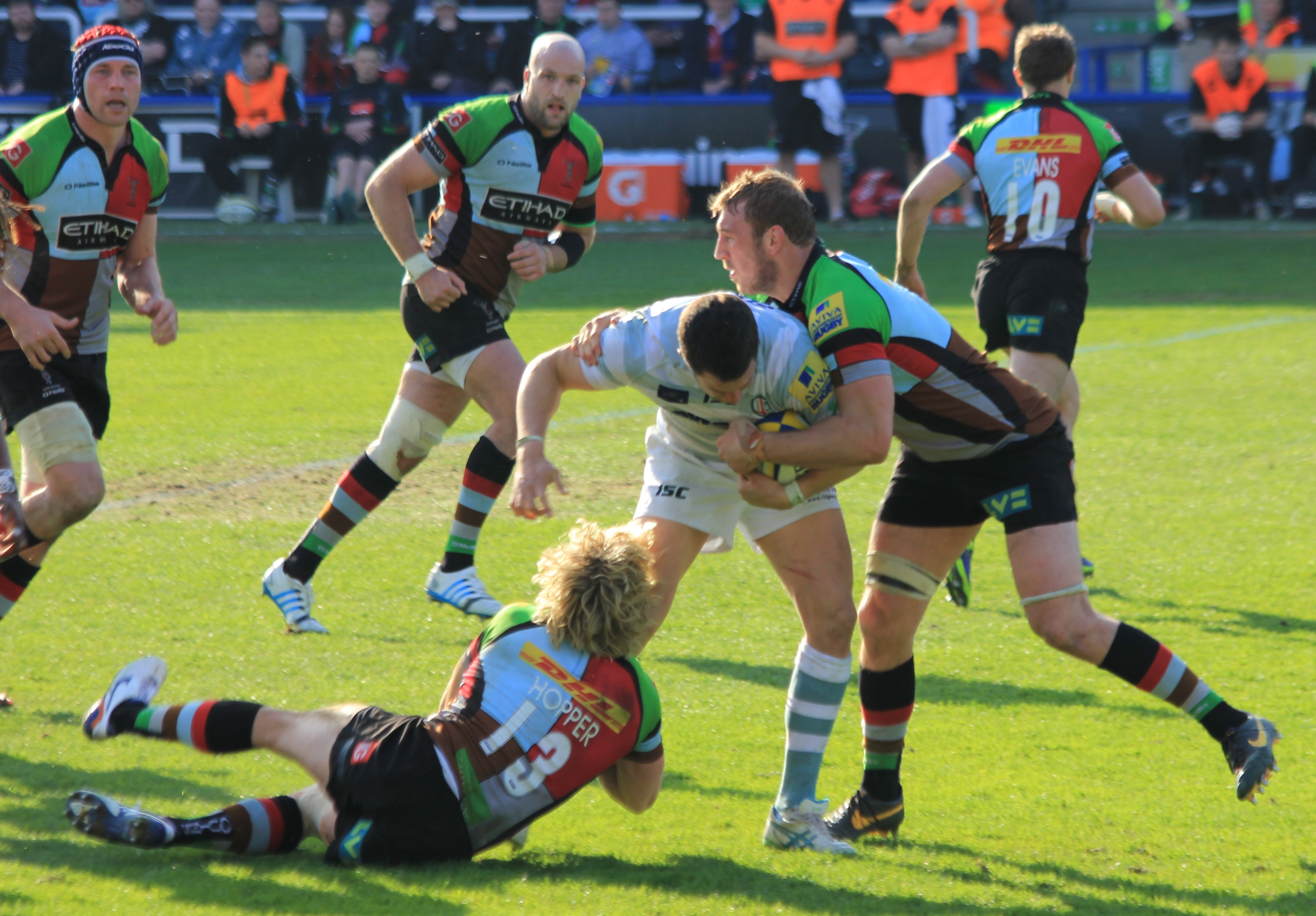 Chris Robshaw and Matt Hopper tackling Fergus Mulchrone 2013-14 English Premiership Harlequins vs London Irish